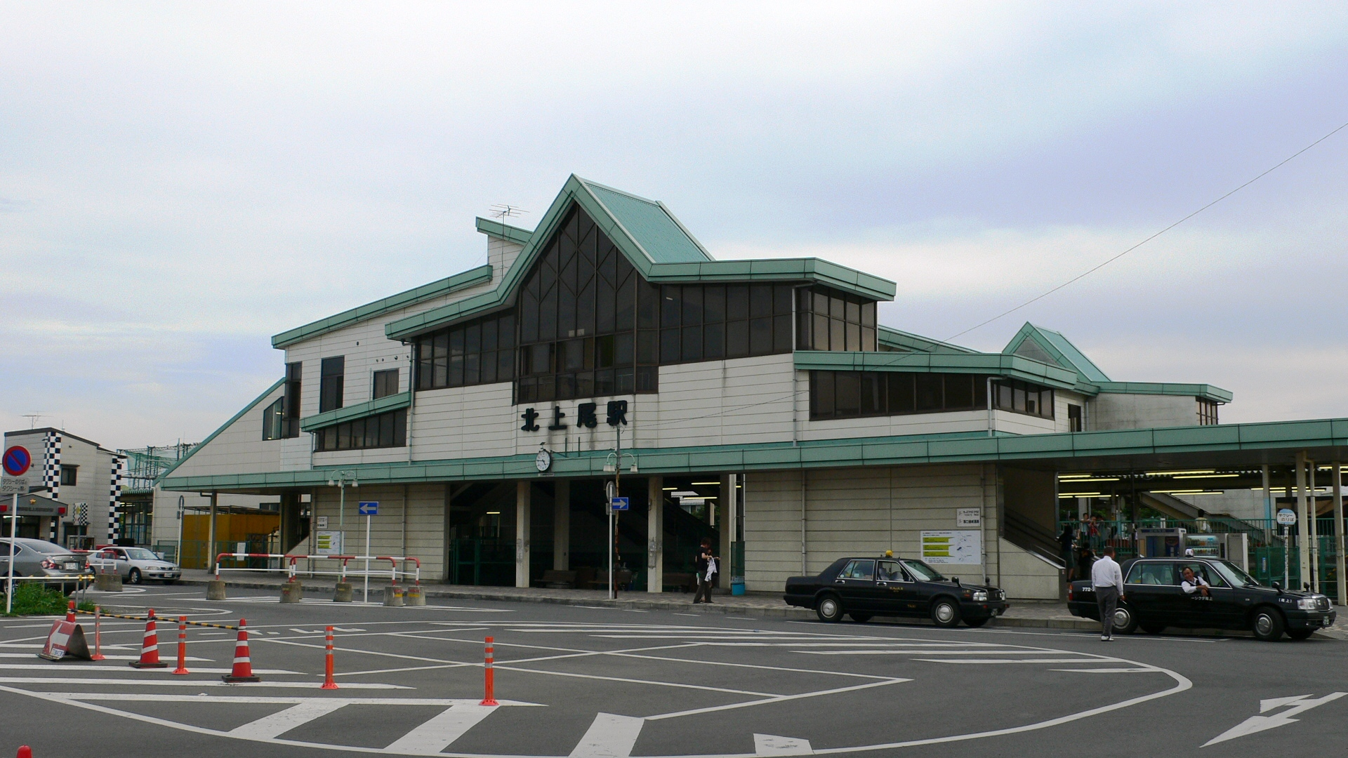 Kita-Ageo Station(北上尾駅)(East side)